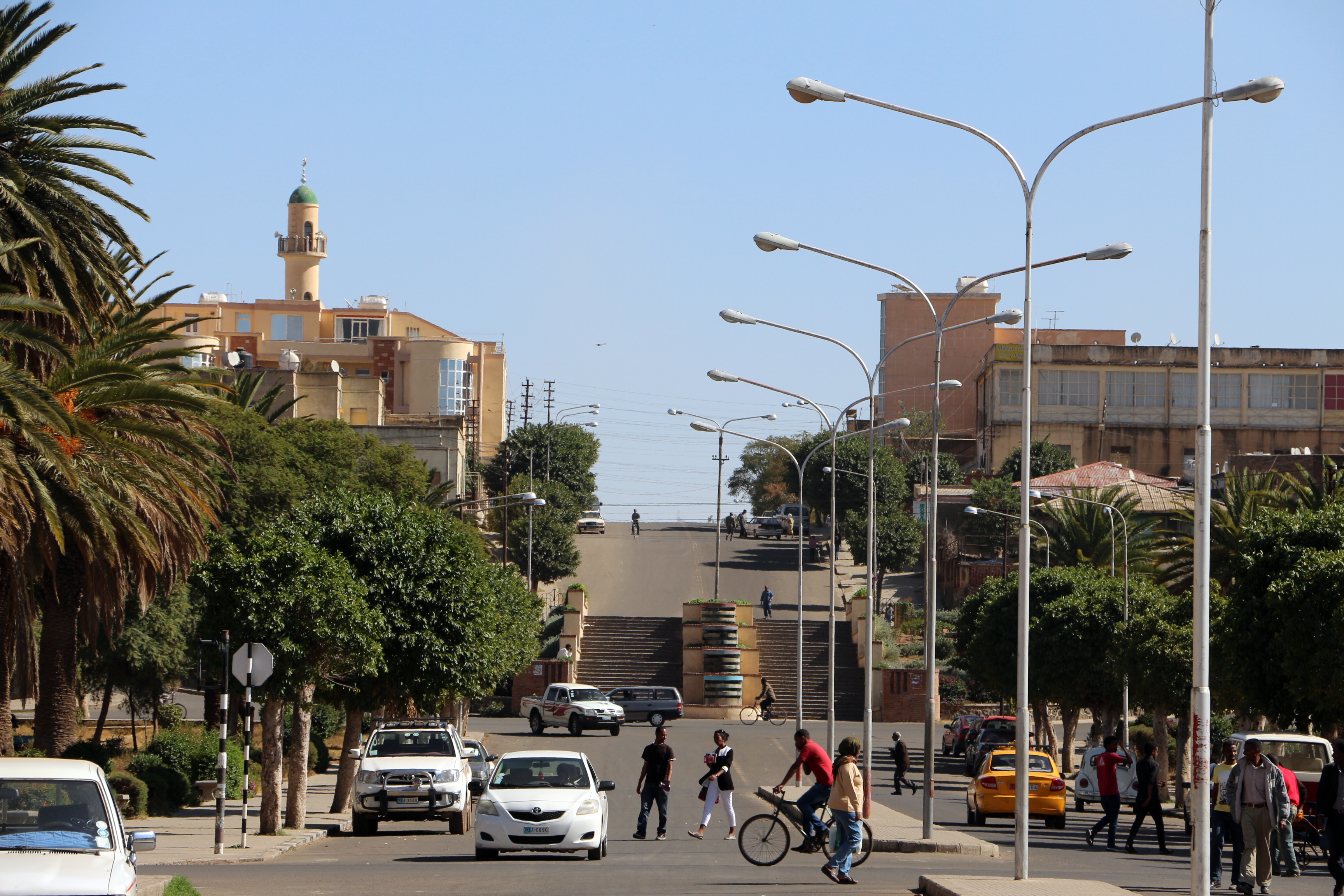 Buildings in Asmara